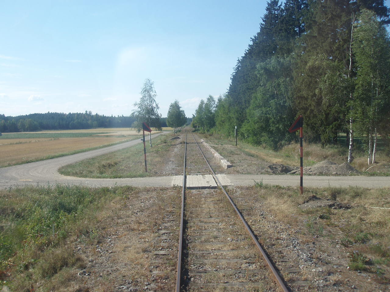 Kiiala railway depot in Porvoo, Finland